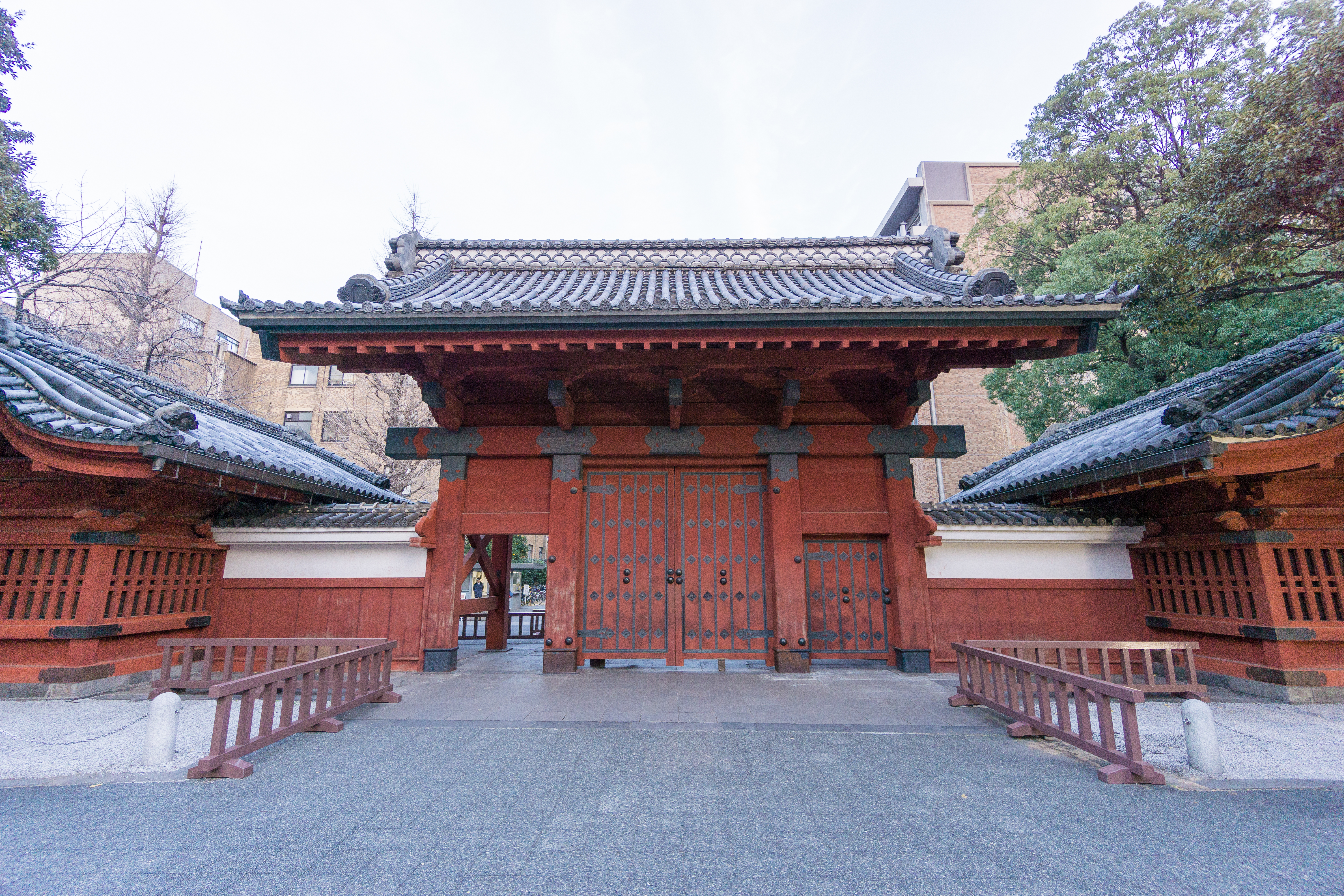 東京大学 / The University of Tokyo